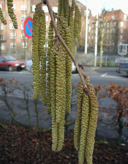 Turkish hazel - Catkins